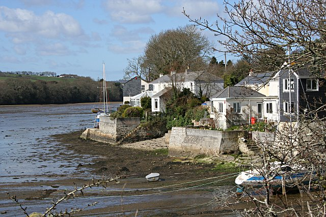 Waterside Cottages on Restronguet Creek.